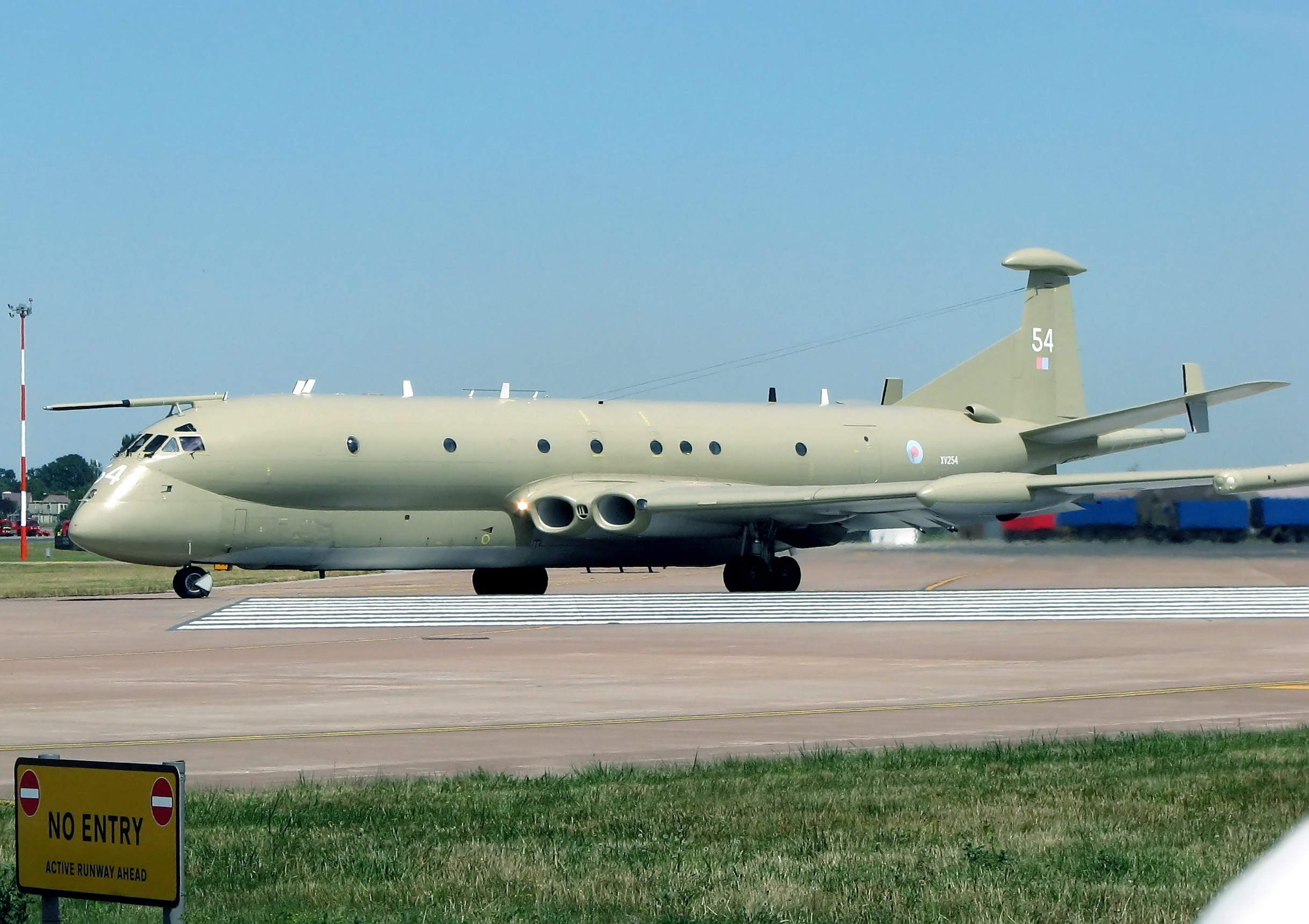 BAe Nimrod MR.2 (XV254) taxis for takeoff at the Royal International Air Tattoo, Fairford, Gloucestershire, England. Photographed by Adrian Pingstone on July 17th 2006 and released to the public domain.